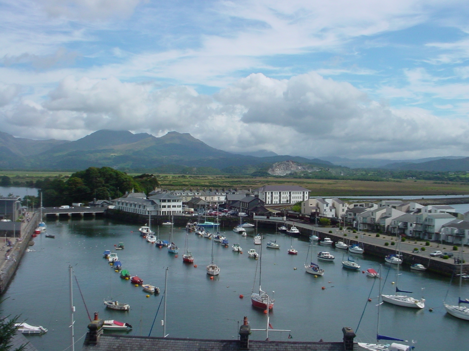 Porthmadog Harbour, the Ffestiniog station, and the start of The Cob.